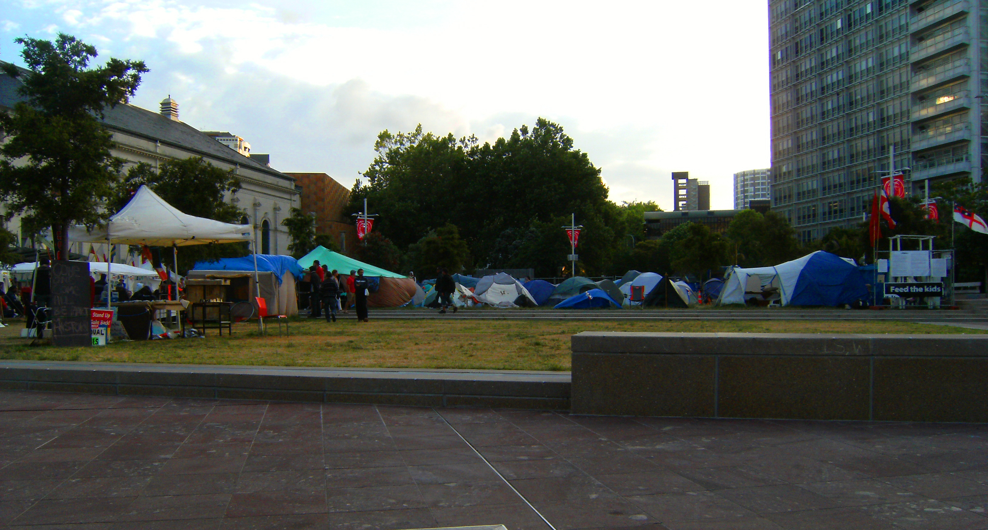 A photograph taken in Aotea Square, showing the campsite of the Occupy Auckland protest. Taken in the evening, 9th Dec, 2011.